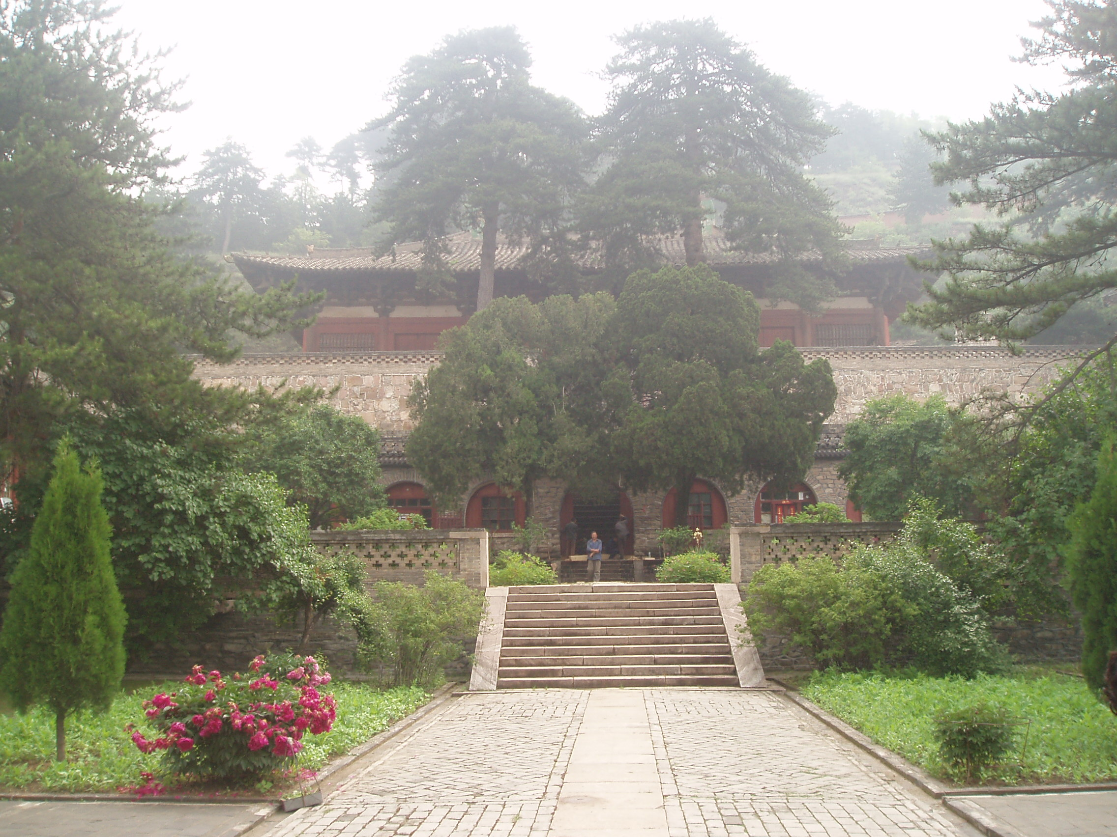 The Grand East Hall of the Foguang Temple in Shanxi, China.